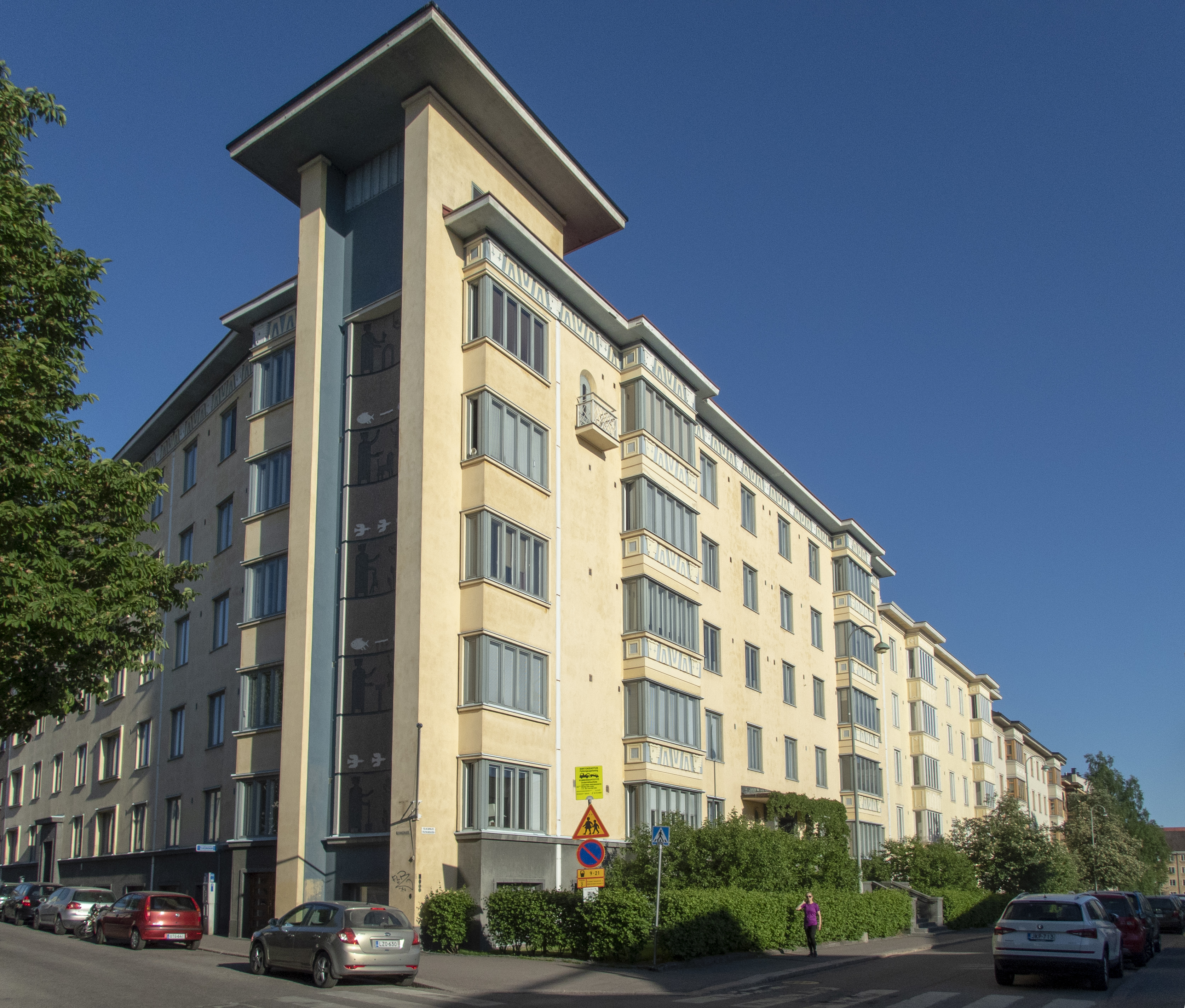 Välskärinkatu 9, Sandelsinkatu 10, Architect Jalmari Peltonen. Built in 1933